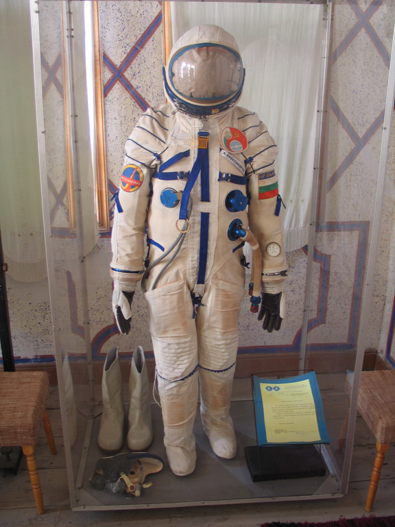 The Sokol space suit of Bulgarian cosmonaut Aleksandar Aleksandrov. From RodnoWiki, author Dimitar Petkov, 2004.